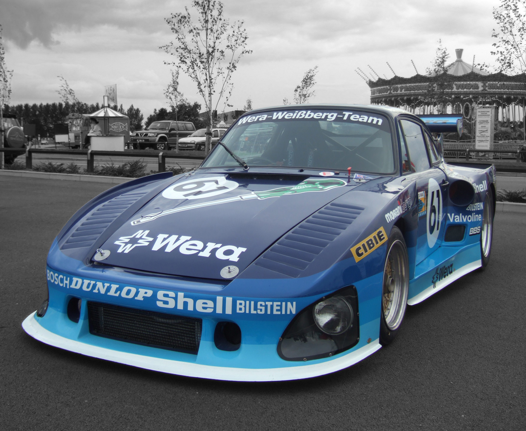 1981 Kremer Porsche 935 K3, as driven by Edgar Dören (D)/Jürgen Lässig (D) in the 1981 Silverstone 6 Hours. Taken at the 2007 Silverstone Classic; modified (background desaturated) in Adobe Photoshop. Taken and modified by myself.